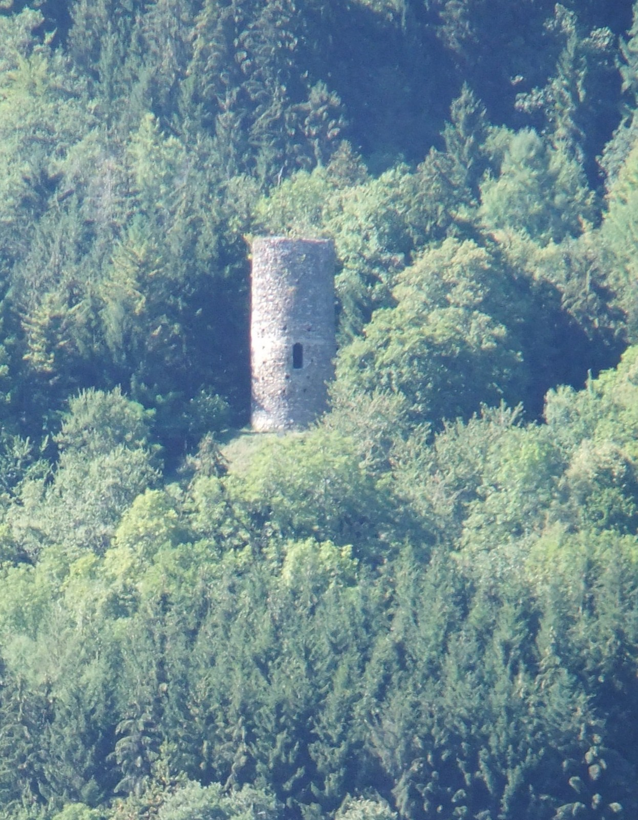 Tower of Aquin, remaining of some fortified manor house.